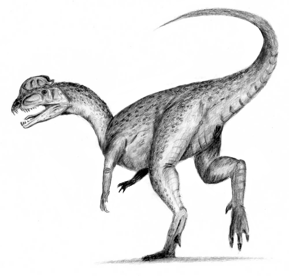 Dilophosaurus Author:User:ArthurWeasley